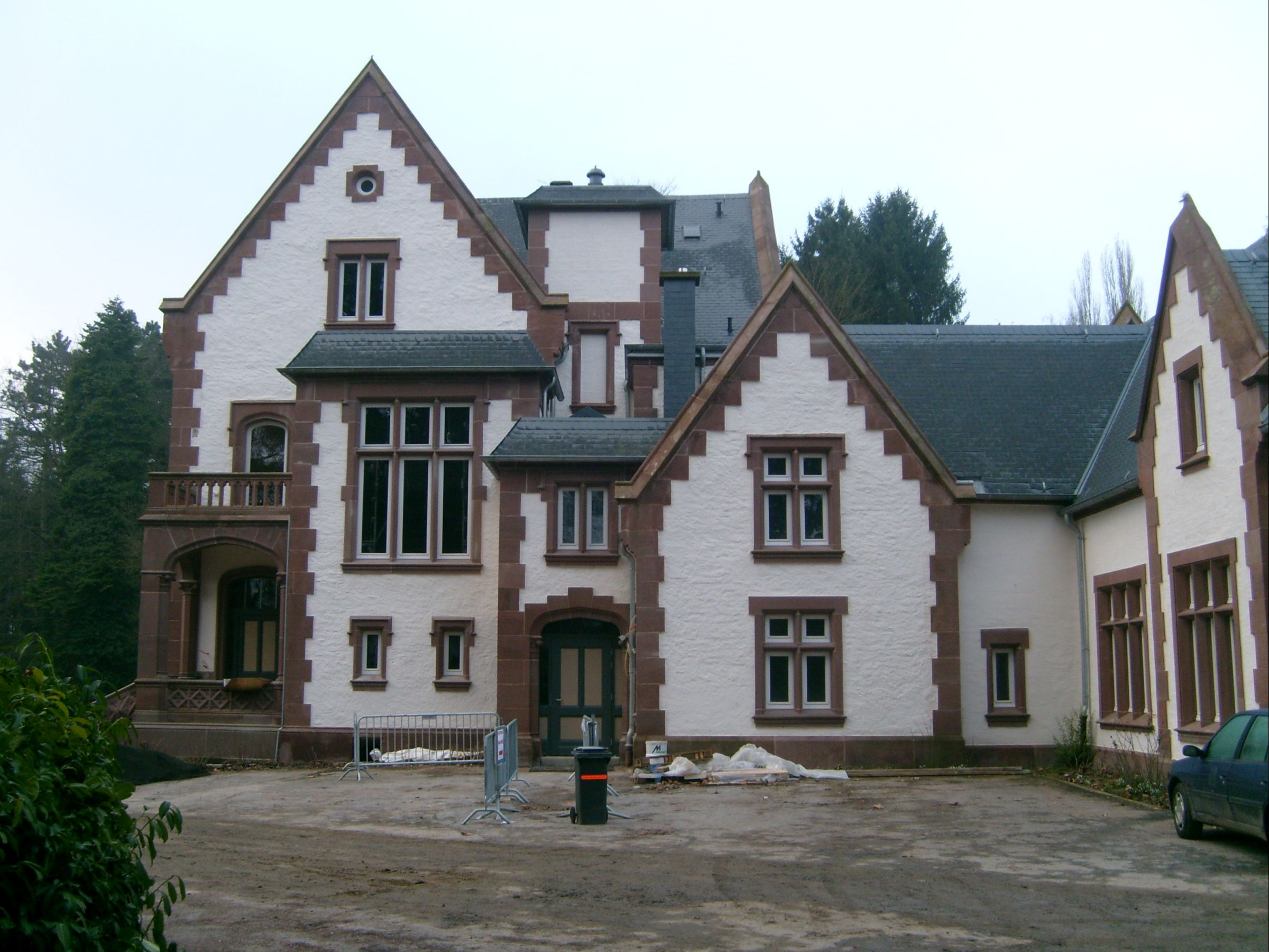 The house of Henri Owen Tudor (30 September 1859 – 31 May 1928), a Luxembourgian engineer, inventor, and industrialist, in Rosport, Luxembourg. Today the town hall of Rosport.